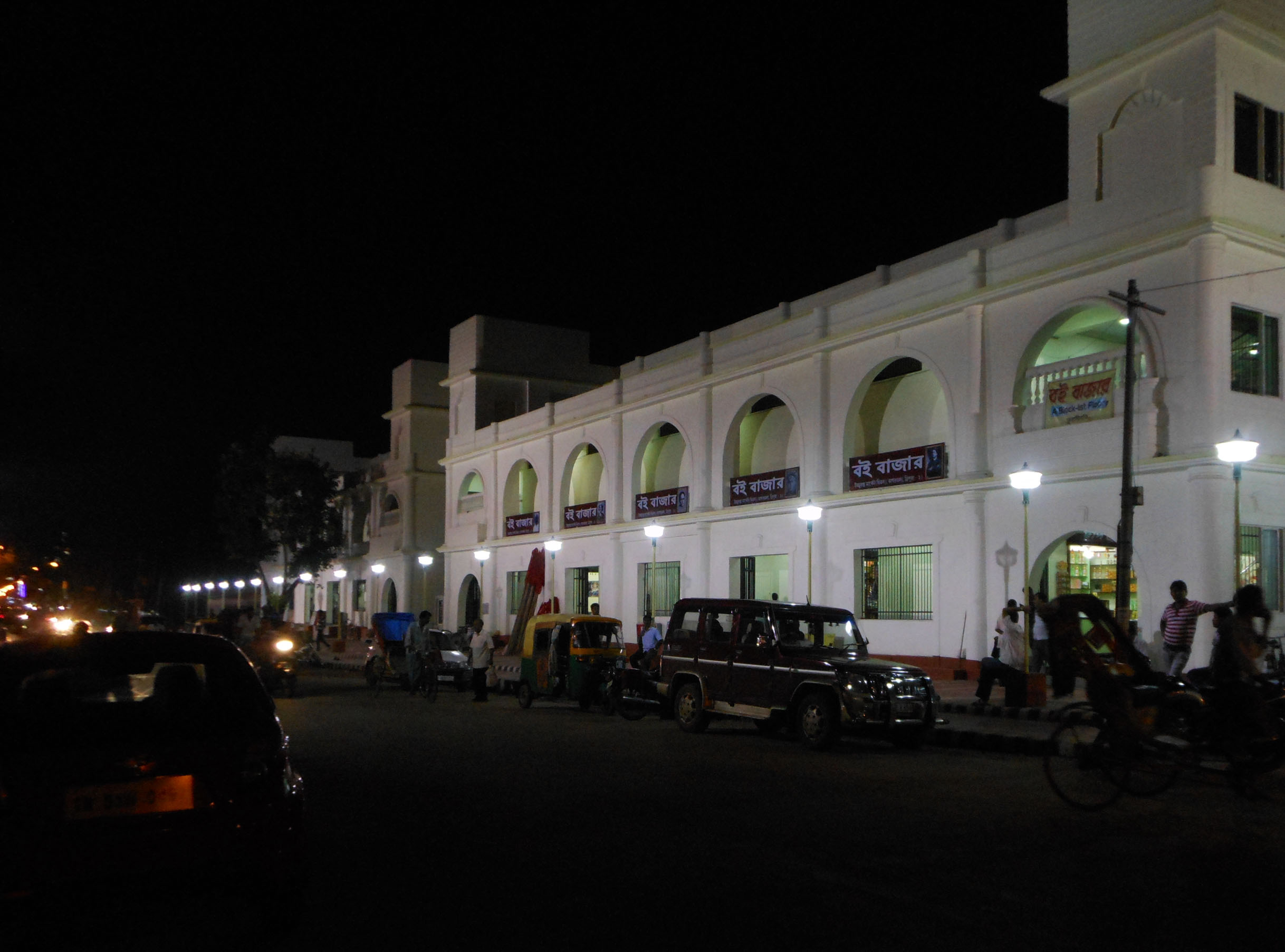 Ujjayanta Market formerly was known as Indira Book market located near children's park